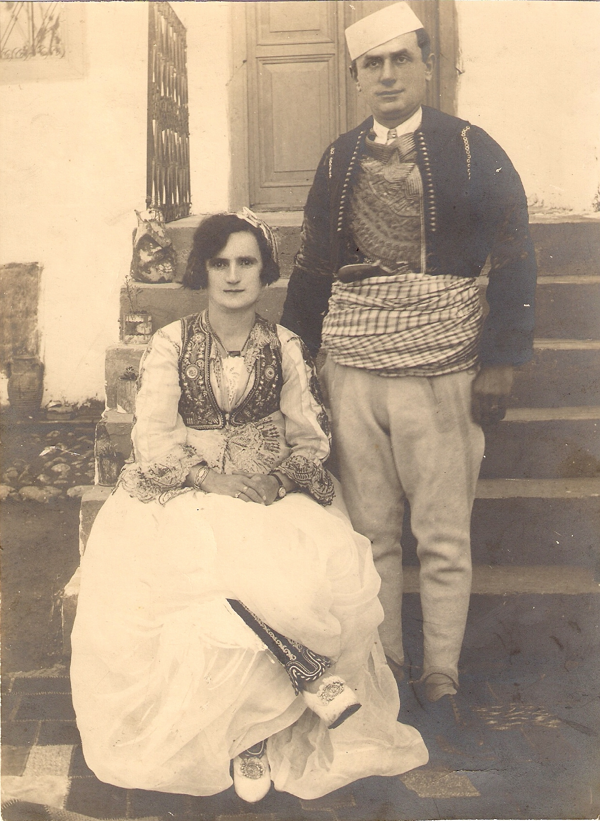 Anastas Frasheri and his wife Eudoxia